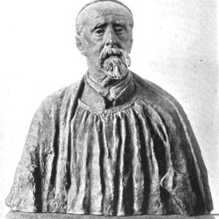 A bronze bust of G.F. Watts by Emma Cadwalader-Guild.